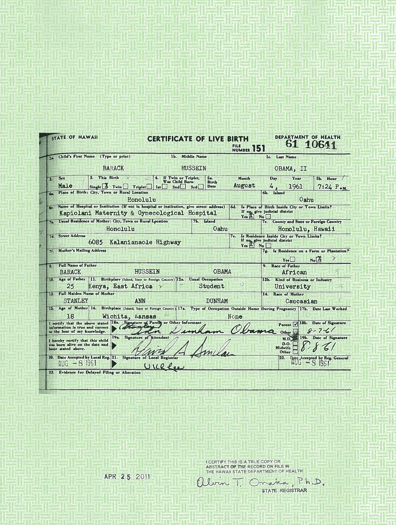 This is the long form birth certificate showing that the 44th President of the United States, Barack Obama, was born at 7:24 pm, on August 4, 1961, in Honolulu, Hawaii, United States.